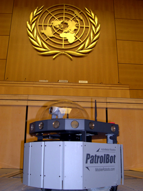 PatrolBot on the floor of the United Nations assembly in Geneva, Switzerland